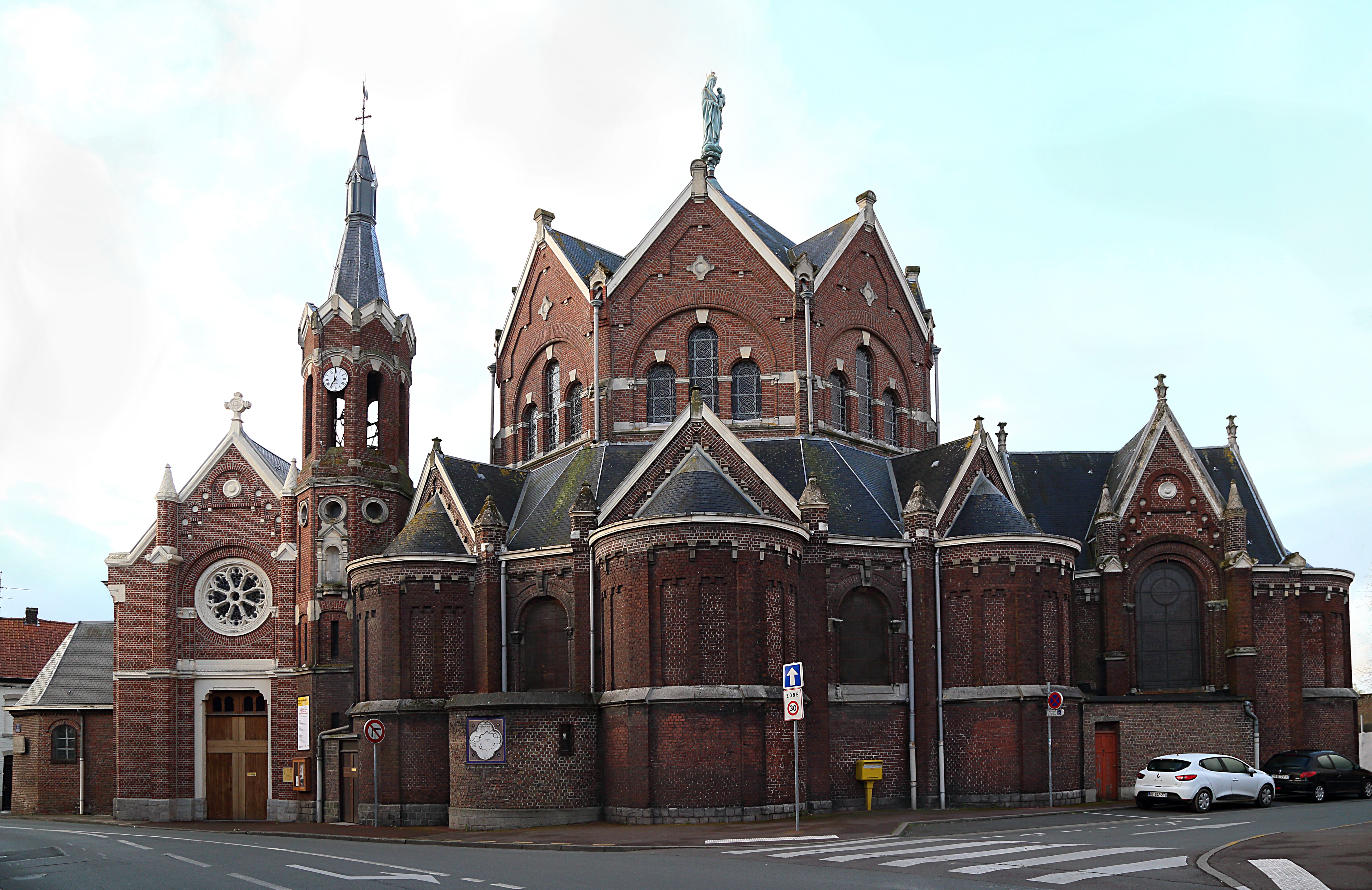 Church Notre-Dame de la Marlière in Tourcoing (Nord), France. Initial construction : oratory in the 17th century ; new sanctuary inaugurated in 1748, enlarged in 1875.